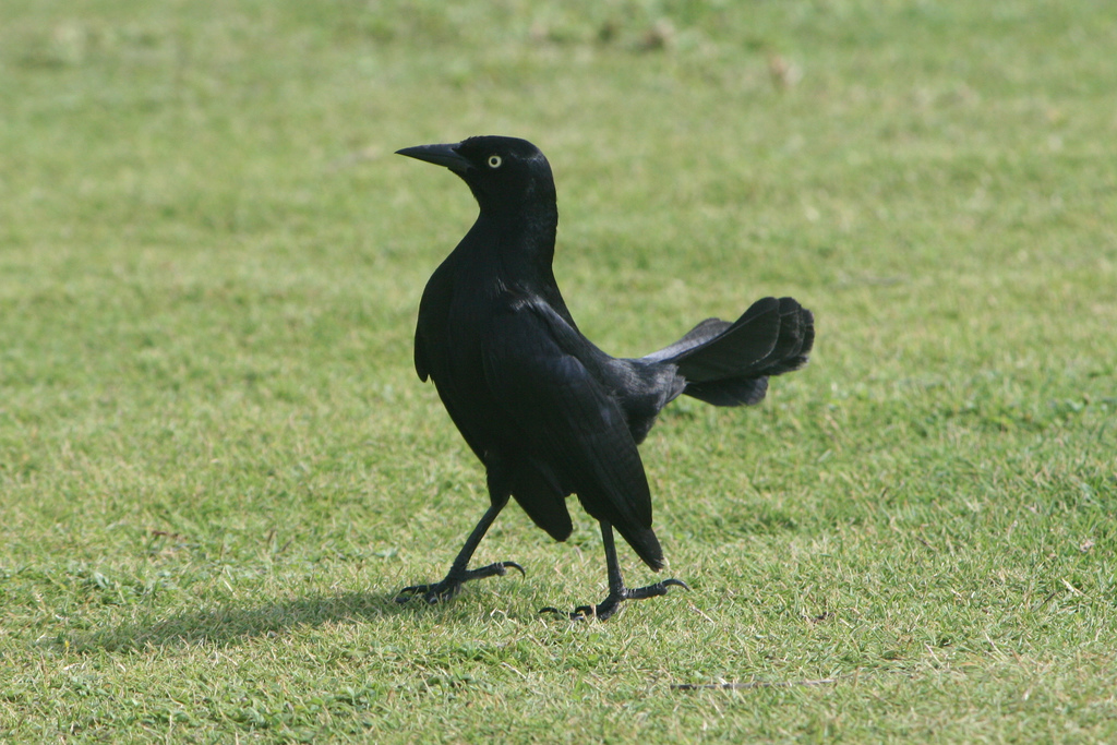 Image:Greater Antillean Grackle in San Juan, P.R.